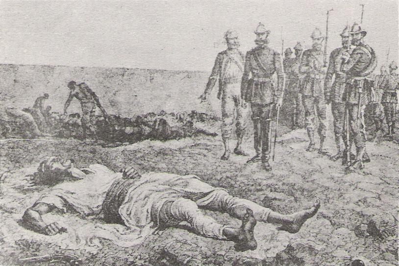 Tewodros found dead by British soldiers